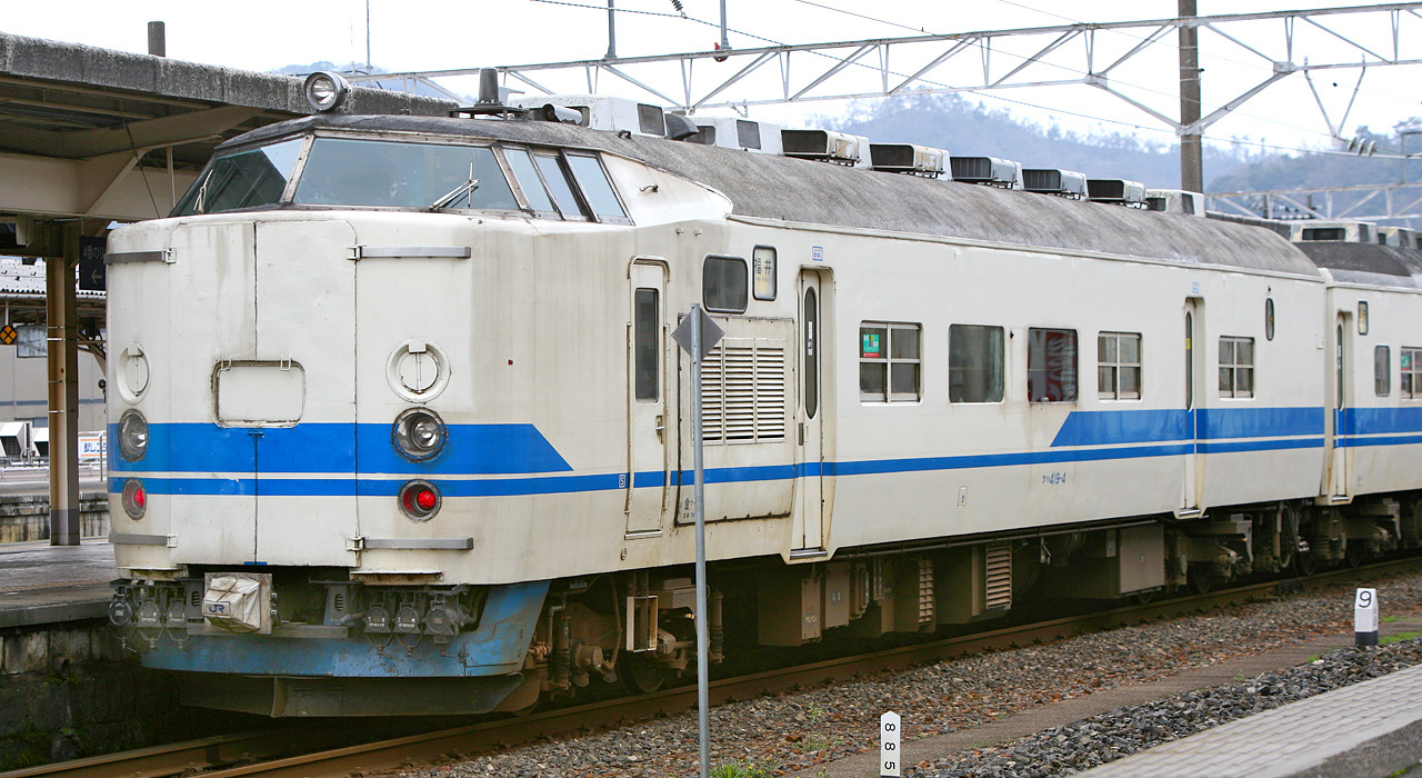 JR West's 419 series EMU at Tsuruga Station ( Kuha 419-4 of D14F ).